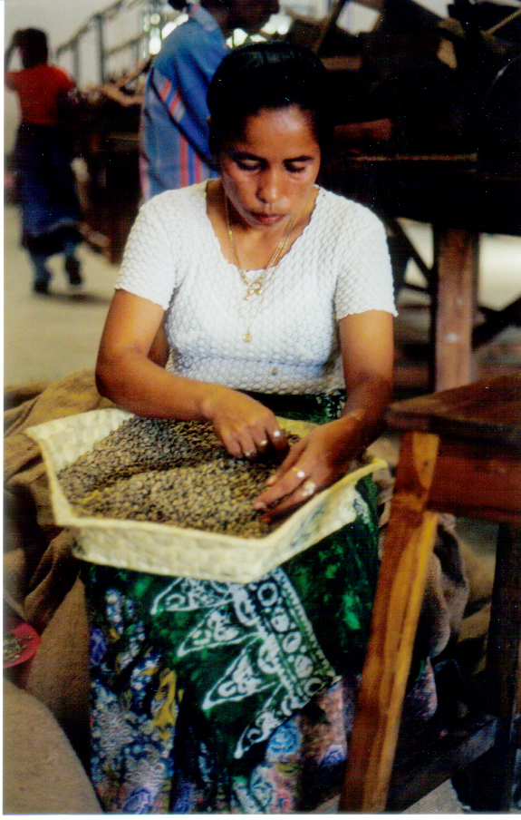 Coffee sorting in Dili